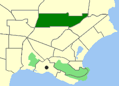 Map of the suburb of Lange in Albany, Western Australia.